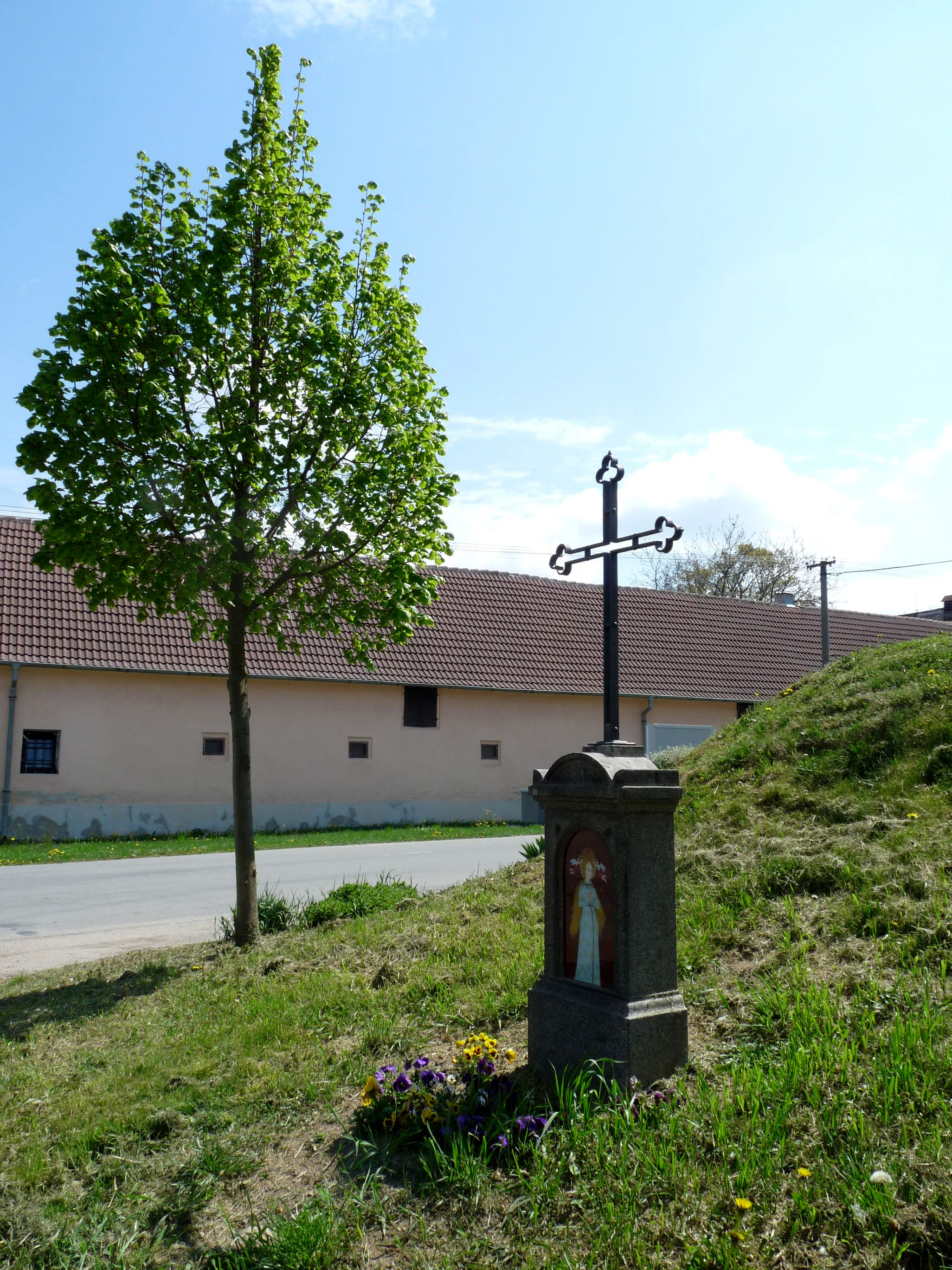 Wayside cross in the municipality of Planá, České Budějovice, South Bohemian Region, Czech Republic.